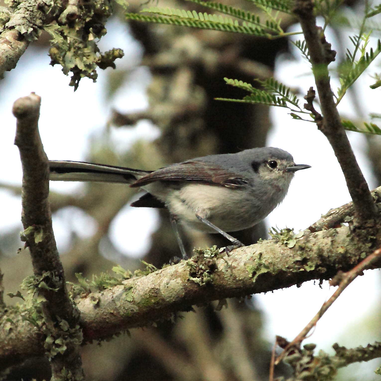 Masket Gnatcatcher (female) at Capivara - Santa Fe - Argentina